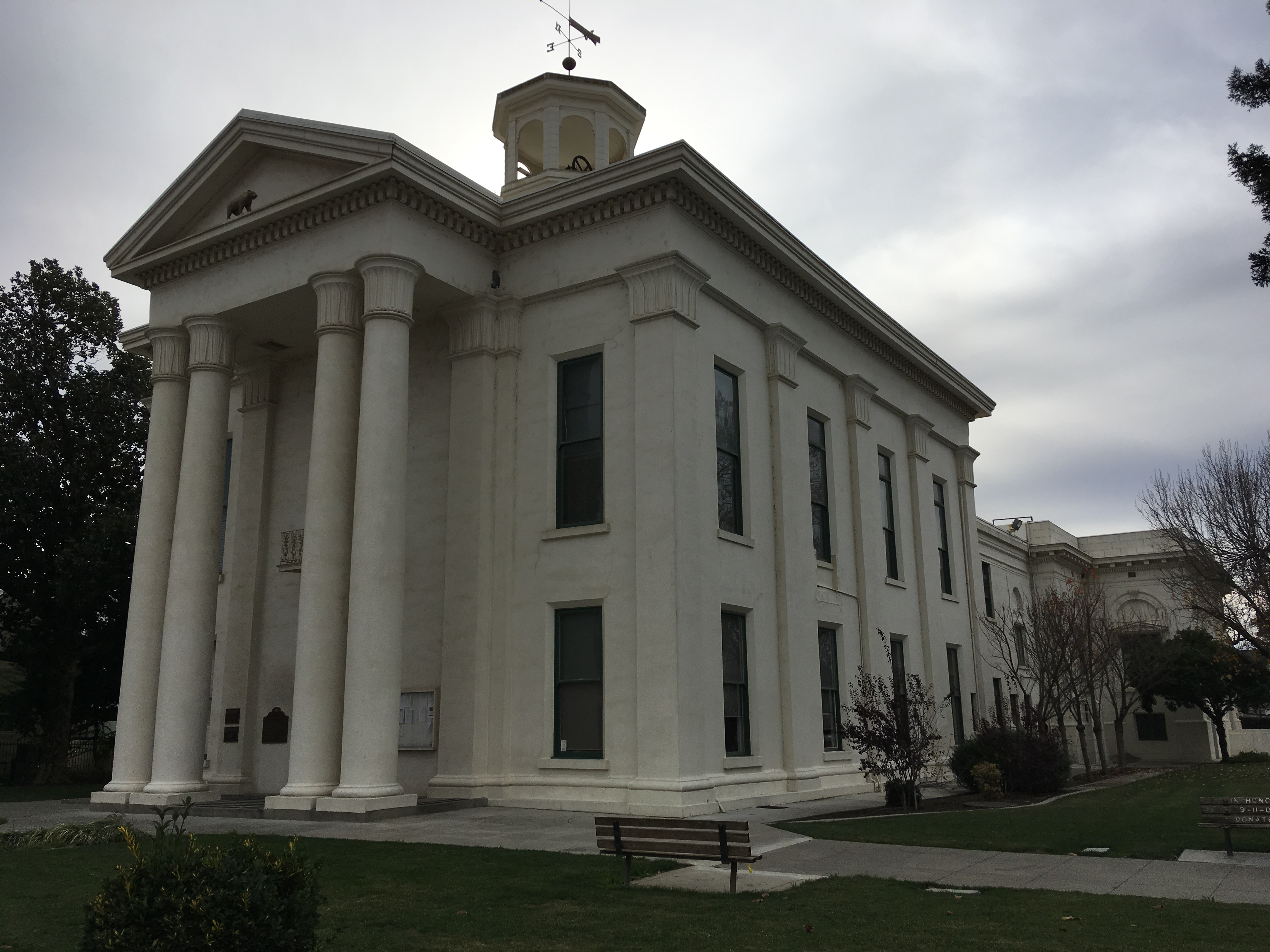 A view of the Colusa County Courthouse, California, taken in December 2018 from the northwest corner.jpg